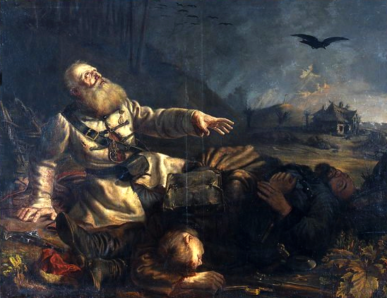 3 generations